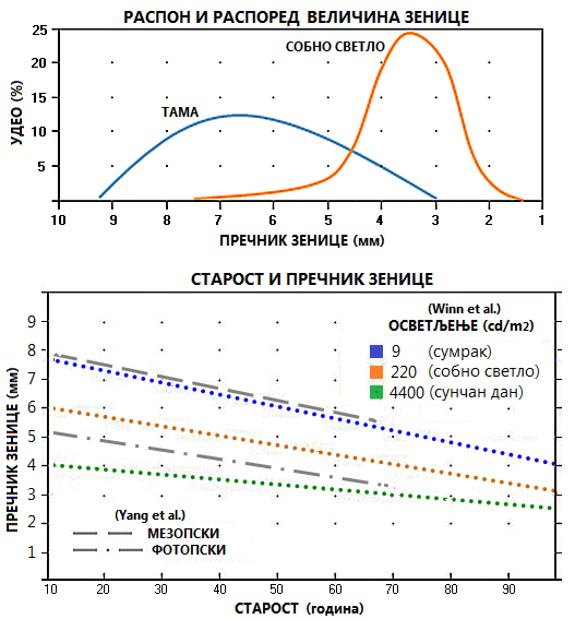 ОТВОР ЗЕНИЦЕ ОКА